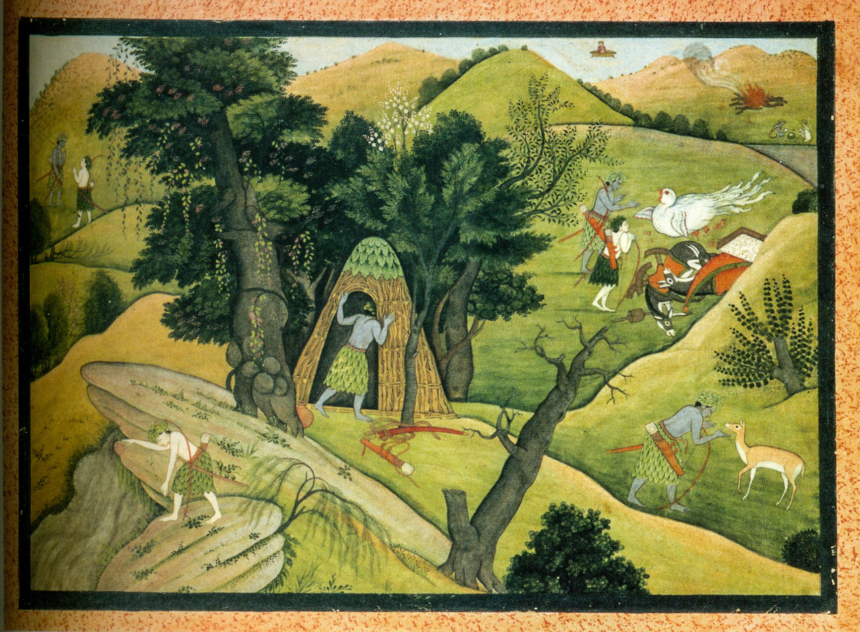 Rama and his younger brother Laksmana are looking for Sita, Rama's wife